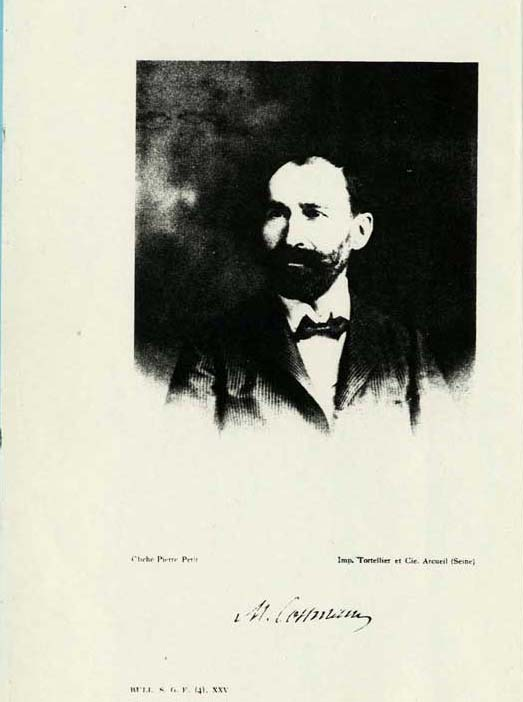 Photo of Maurice Cossmann